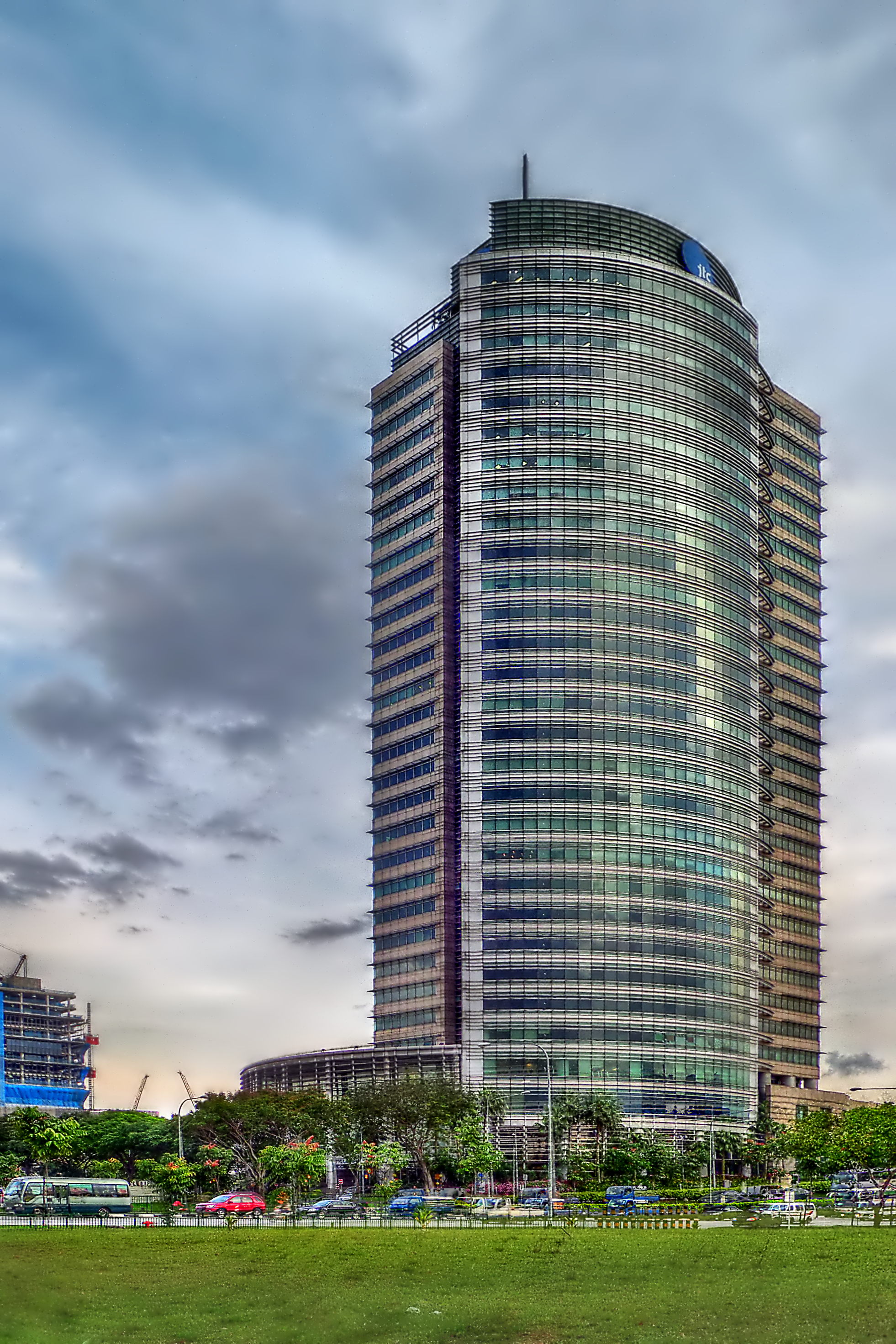 Recce trip to look for buildings for night or blue hour shooting. There is something interesting to the far left of this building (not in the pic) Samsung WB250F